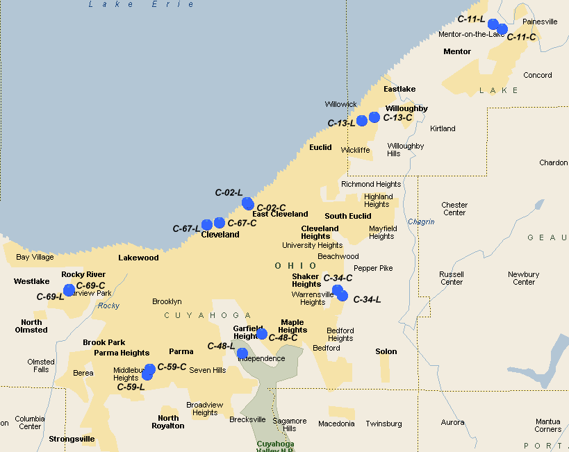 Cleveland Defense Area Nike Missile Sites